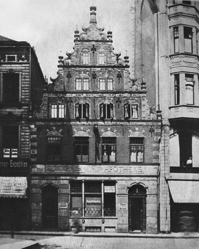 The Sonnenapotheke (“Sun pharmacy”) at the Sögestraße No. 18 in Bremen, Germany, around 1890. Probably built by Lüder von Bentheim around 1600. Destroyed in an air-raid in 1944.